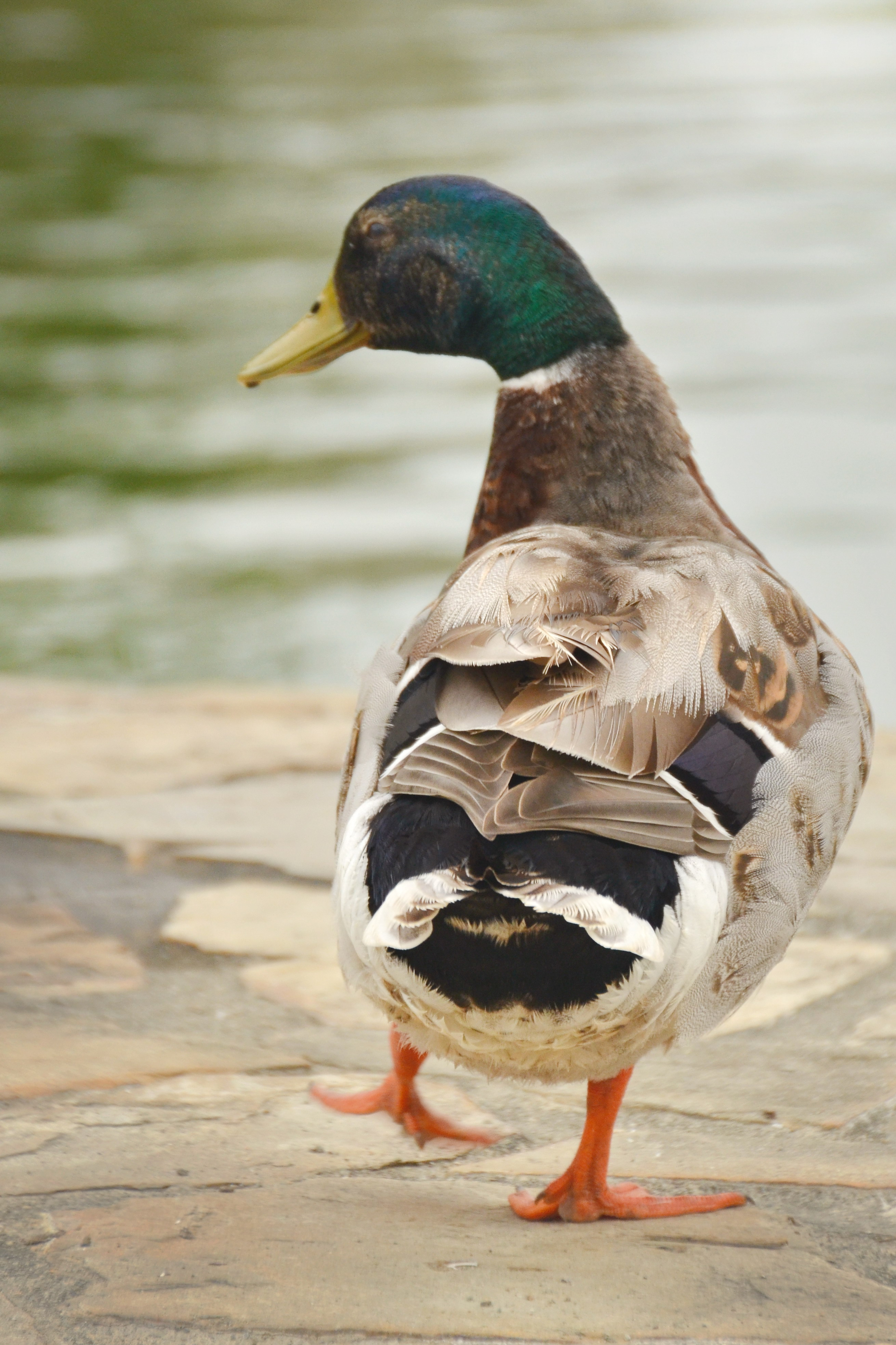 Back view of a mallard